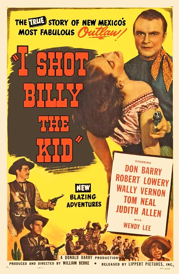 Poster from the american western I Shot Billy the Kid